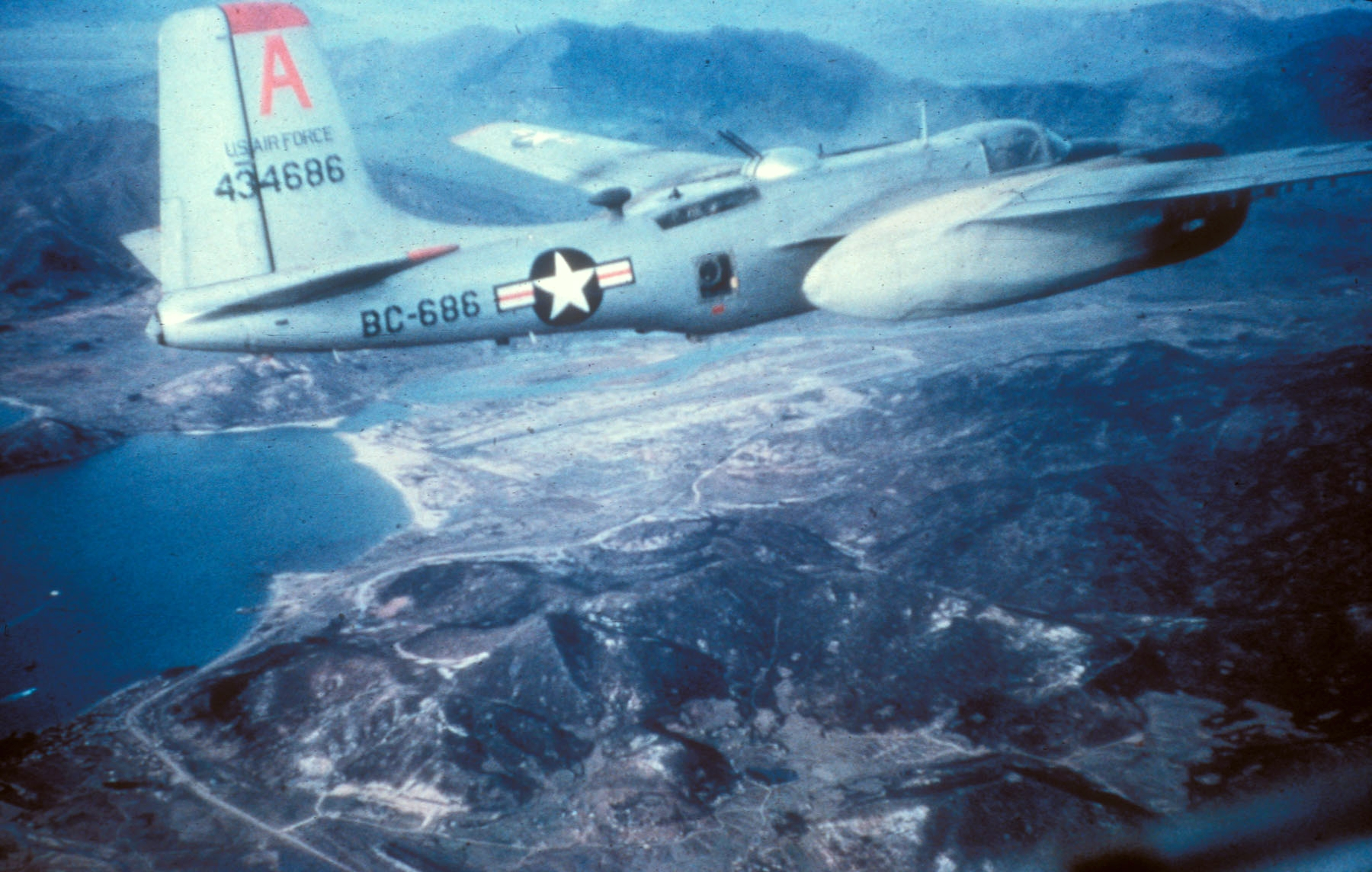 A U.S. Air Force Douglas B-26B-66-DL Invader (s/n 44-34686) during the Korean War. This aircraft was loaned to France in January 1954 for service in Indochina. It was returned to the USAF in November 1955 and scrapped.